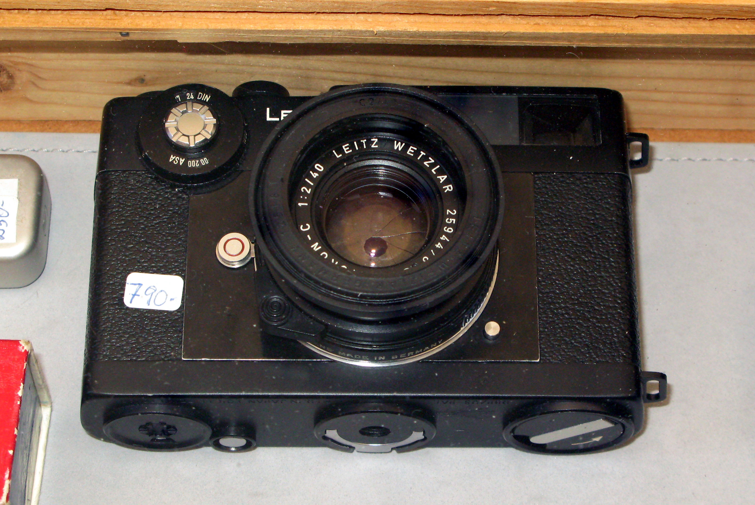 Leica CL